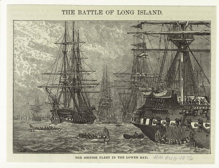 "The British fleet in the lower bay" depicts the invasion fleet under Admiral Howe assembling in lower New York Harbor off the coast of Staten Island in the summer of 1776, in preparation for the Battle of Long Island